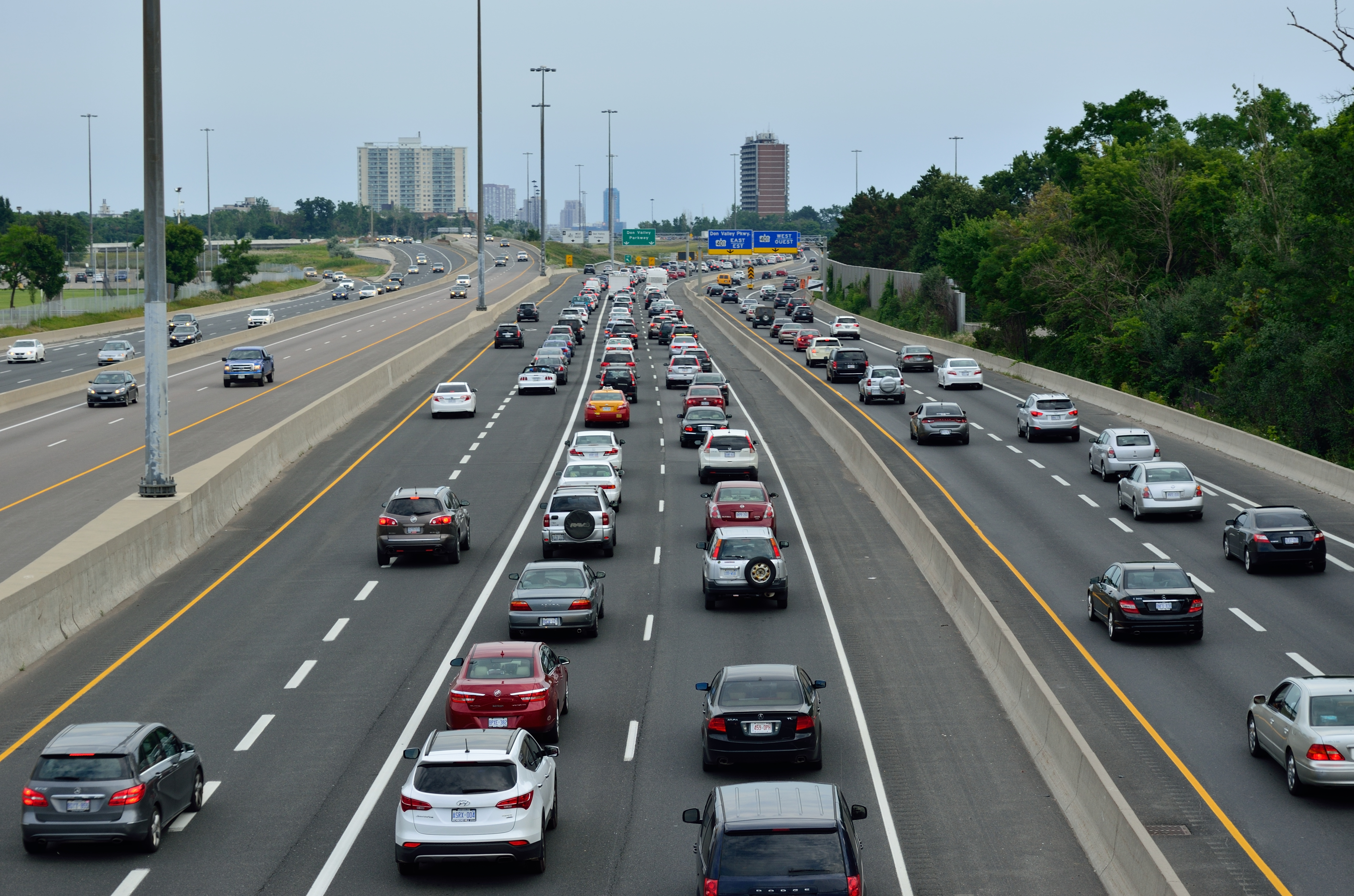 Highway 404, DVP, and Highway 401